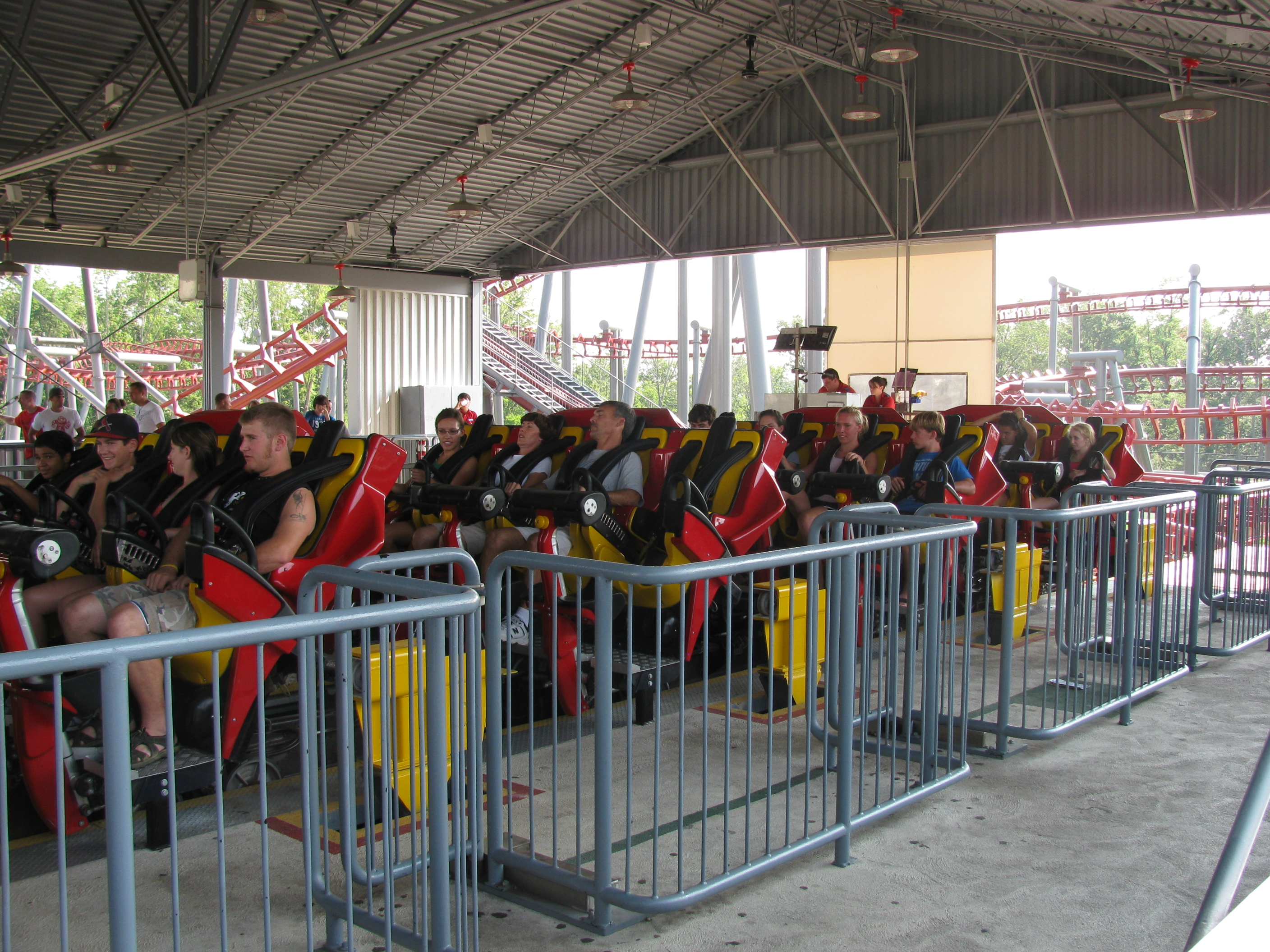 Firehawk loading platform